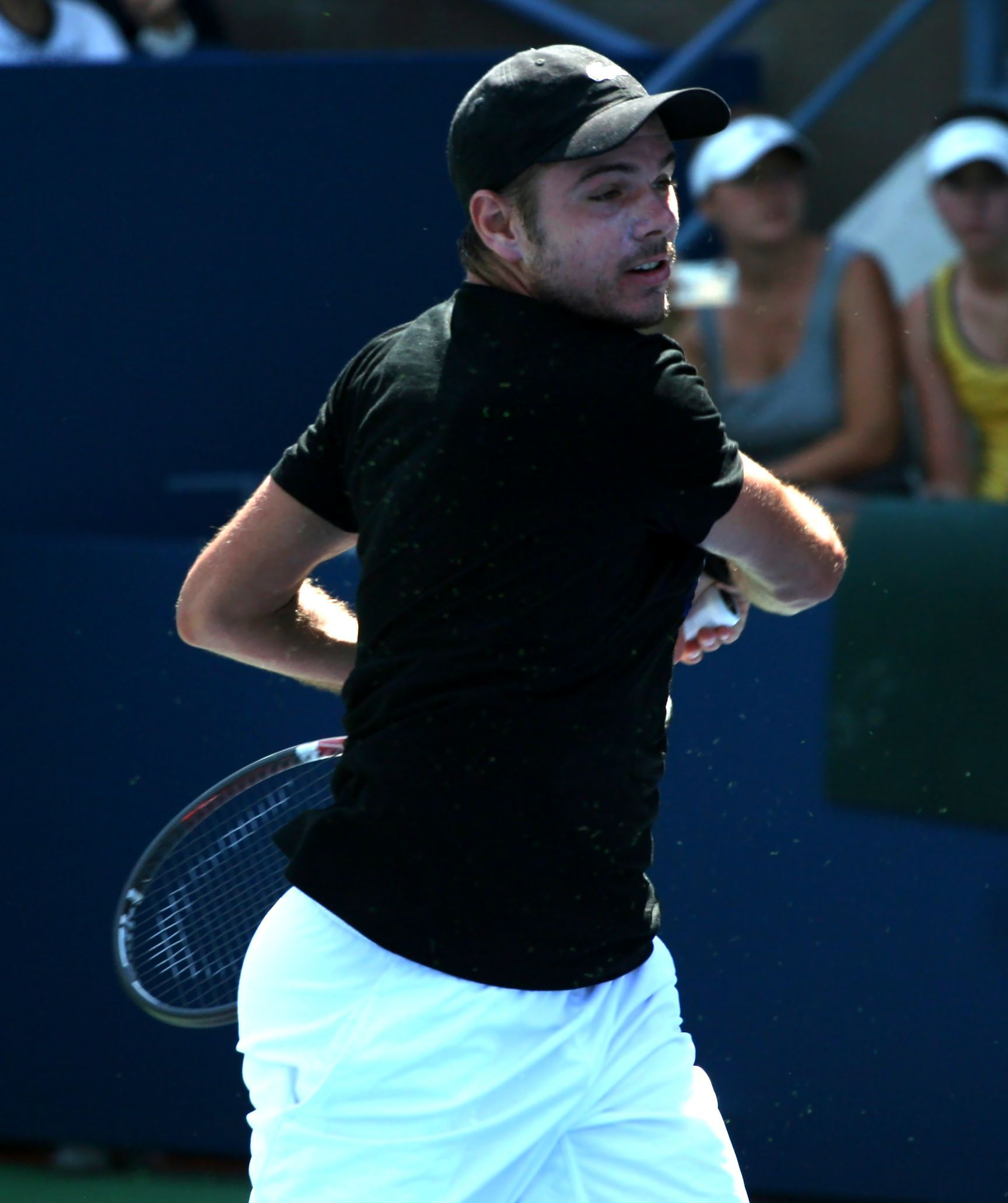 Grandstand Court Wednesday, Aug. 24